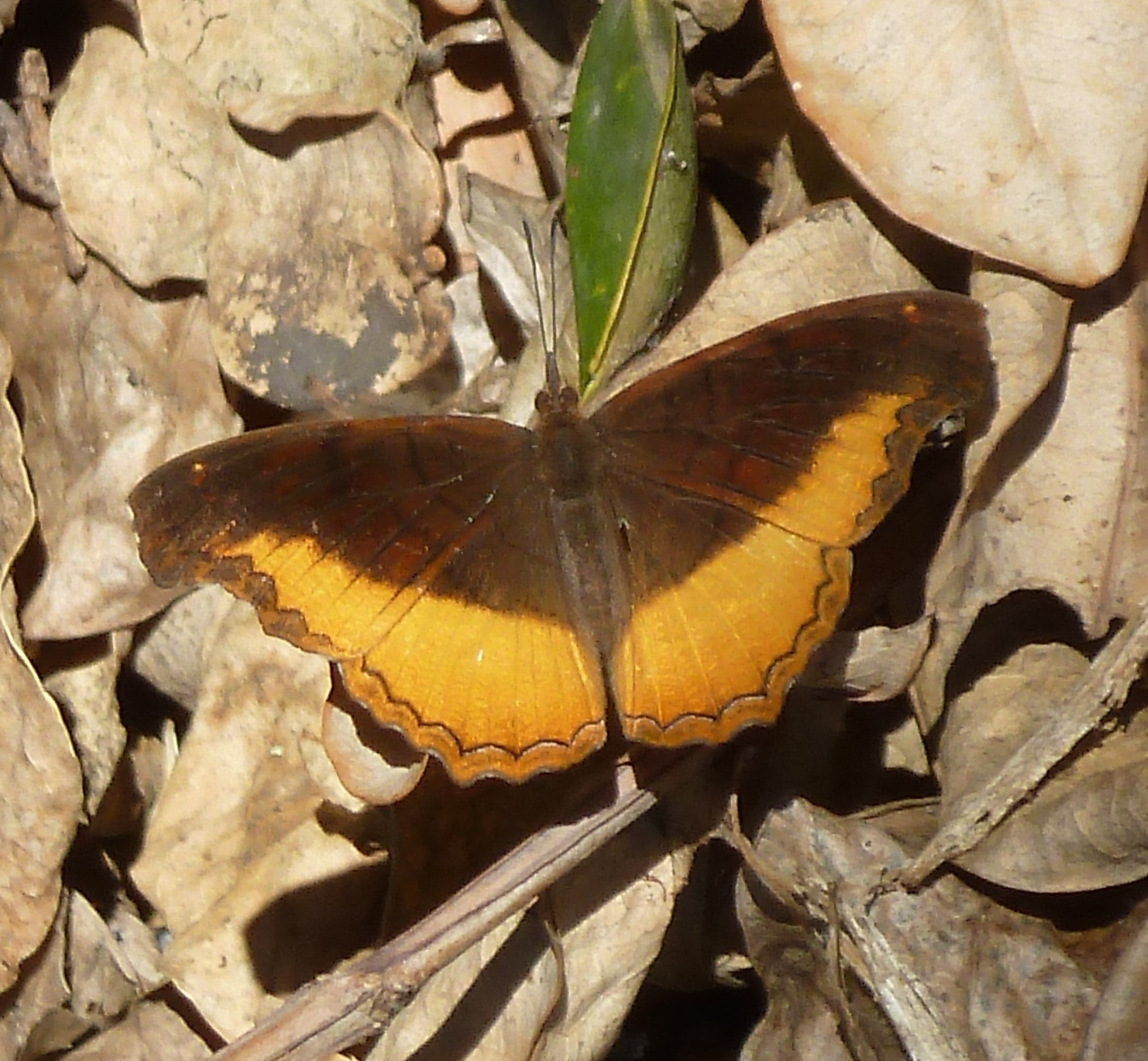 Golden piper at The Waterberry in Ballito, KZN